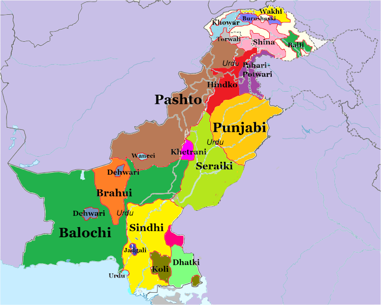 this picture is painted by me after a survey taken my my institute about people speaking language in certain areas